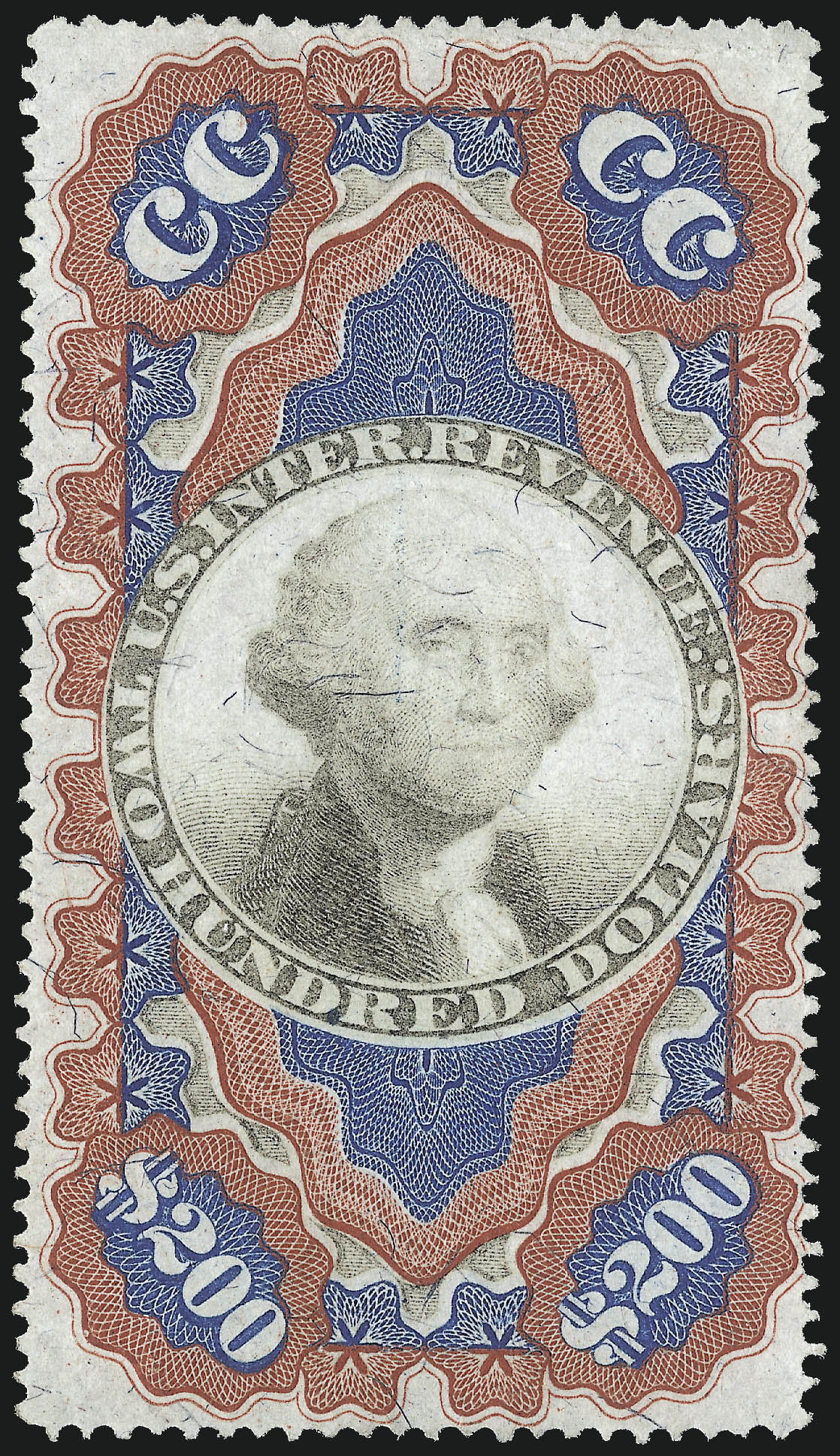 Image of Washington revenue stamp, 200-dollar "small persian rug", issue of 1871 (Scotts#R132)